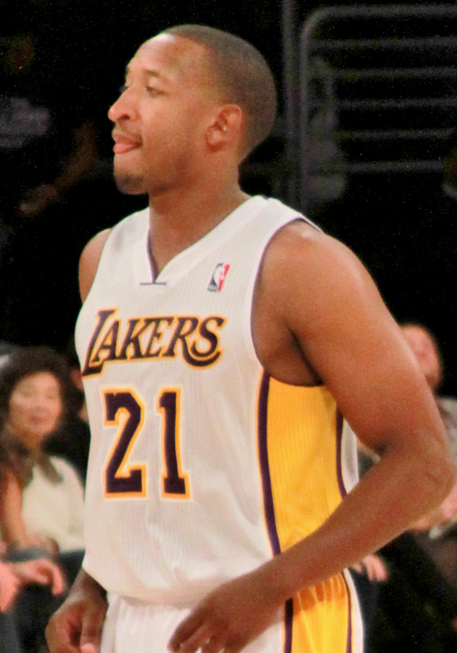 Chris Duhon and Kobe Bryant of the Los Angeles Lakers walk mid-court during a game against the Houston Rockets in the Staples Center, Los Angeles, November 18, 2012.